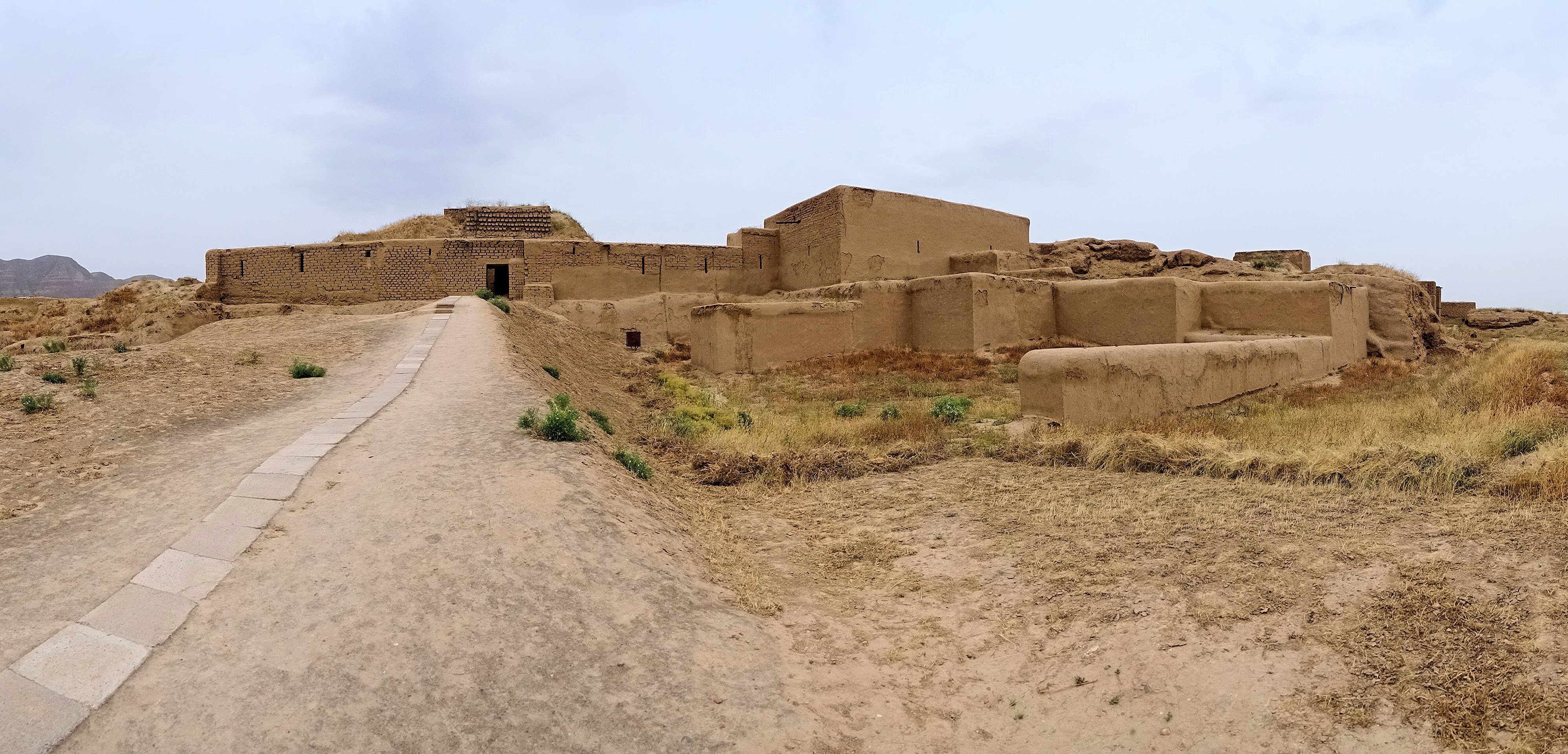 The entrance to the part of the Nisa complex that is best preserved. Most of the walls are covered up in order to prevent further damage from erosion.